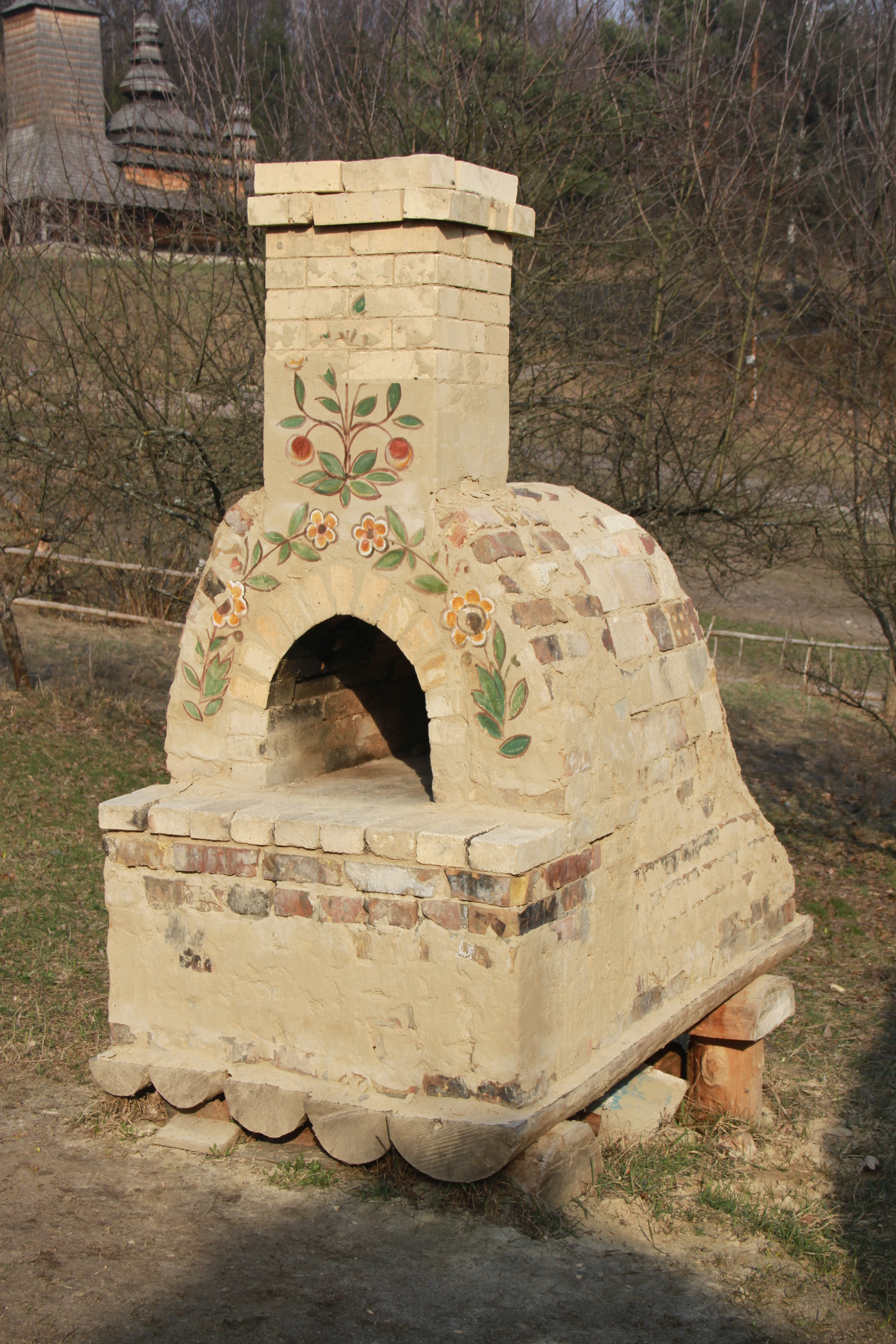 Oven of Estate from Medvedivtsi